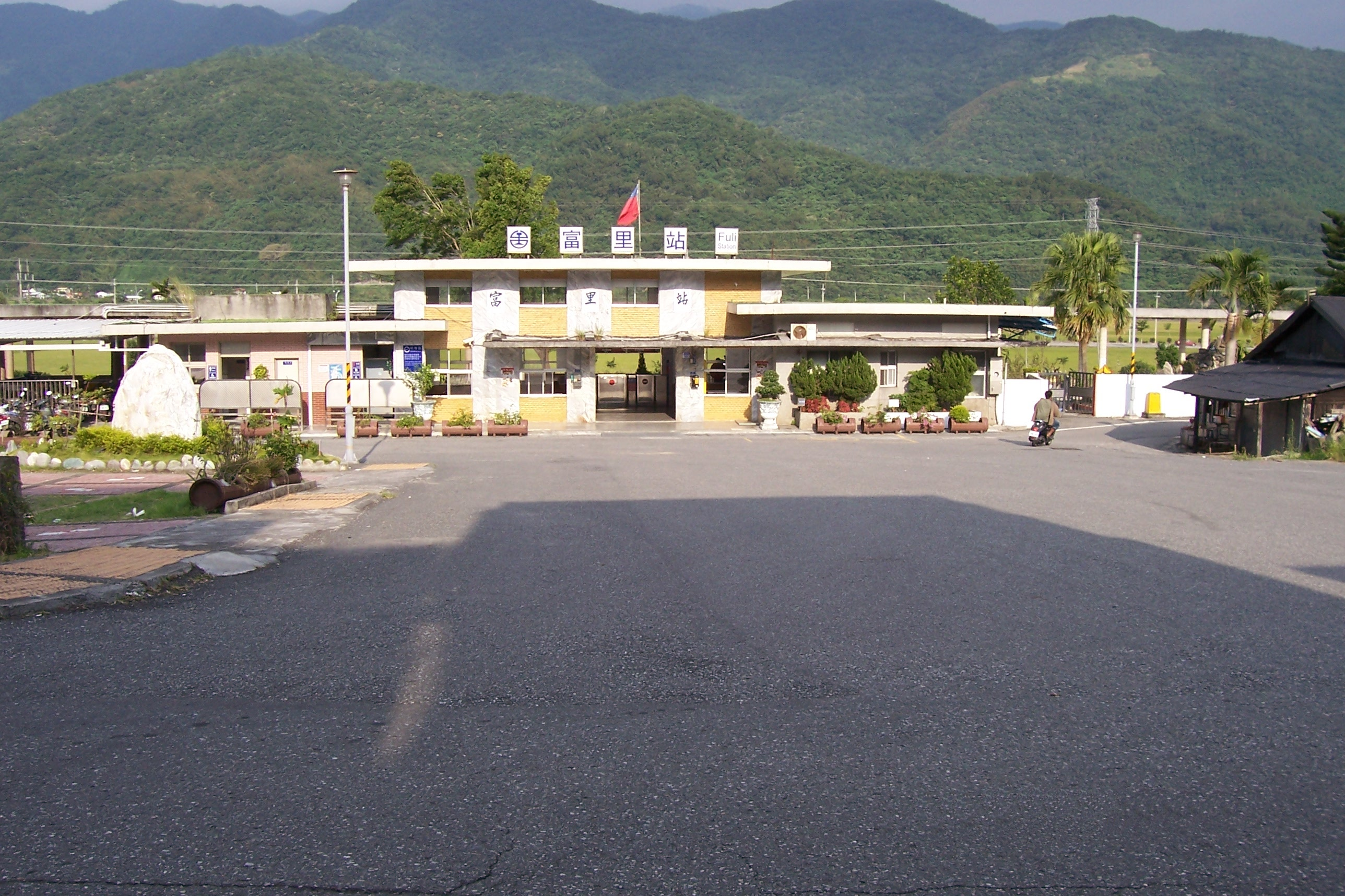 Taiwan Railway Administration Fuli Station.